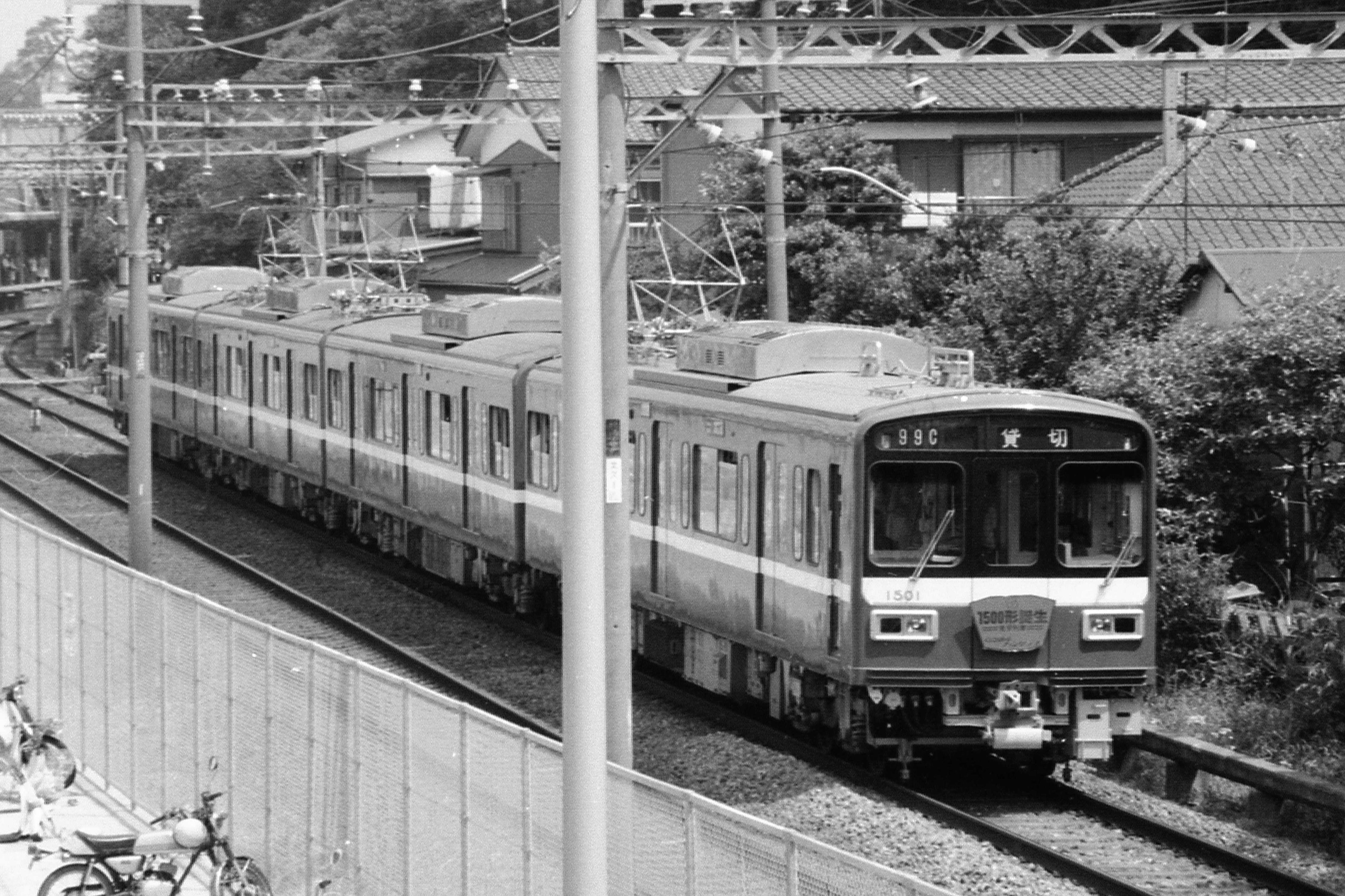 Keikyu 1500 Debuit Memorial train running near Kita Kurihama